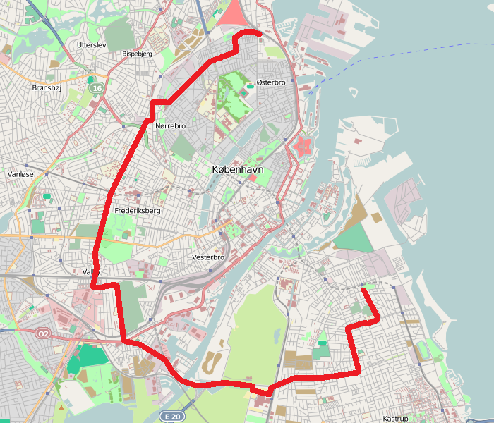 Map of Copenhagen bus line 100S between Svanemøllen Station and Lergravsparken Station as of december 2003, when the line was closed.